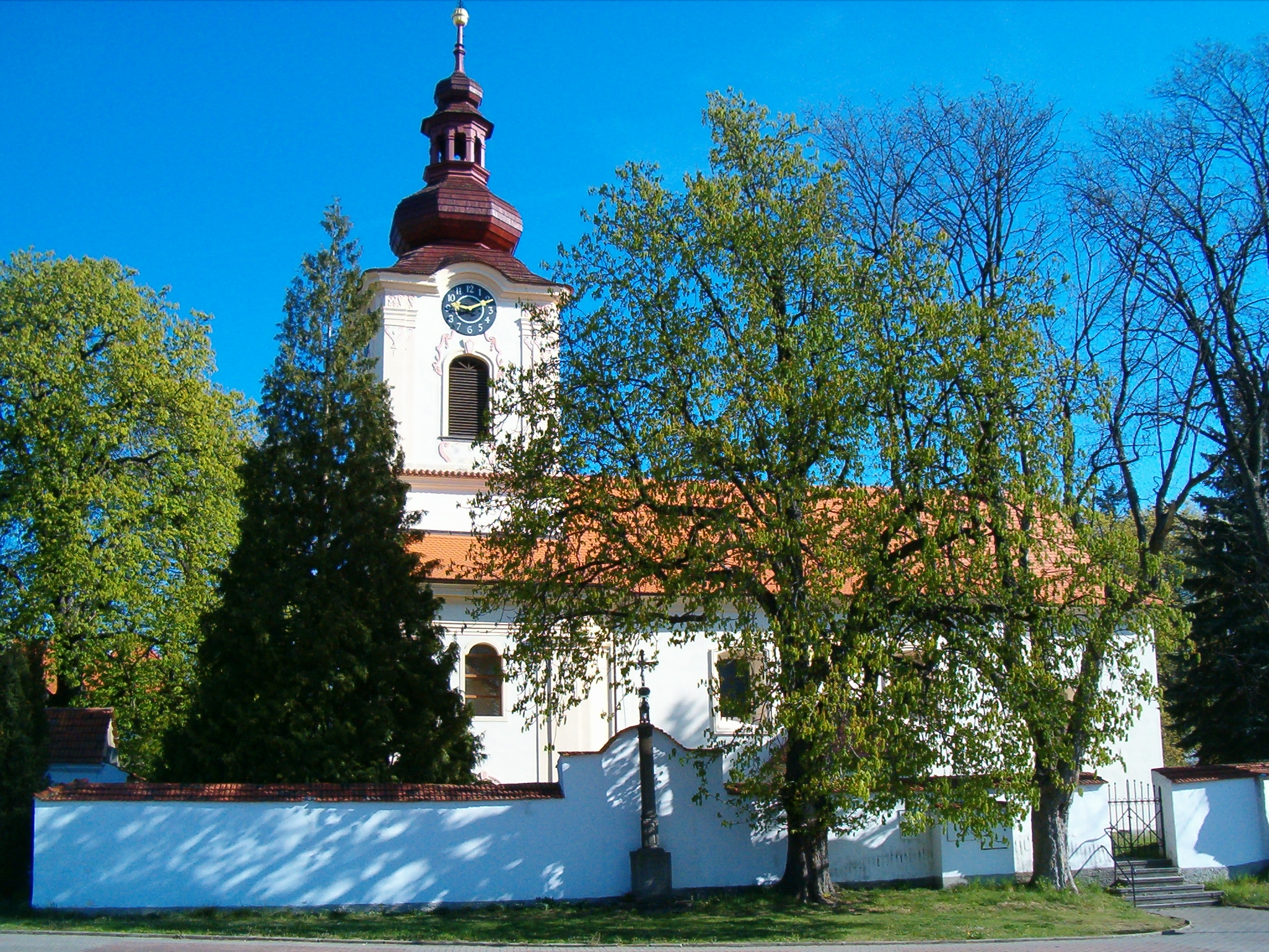 Church of SS Peer and Paul in village of Petrovice (Příbram District), Czech Republic.